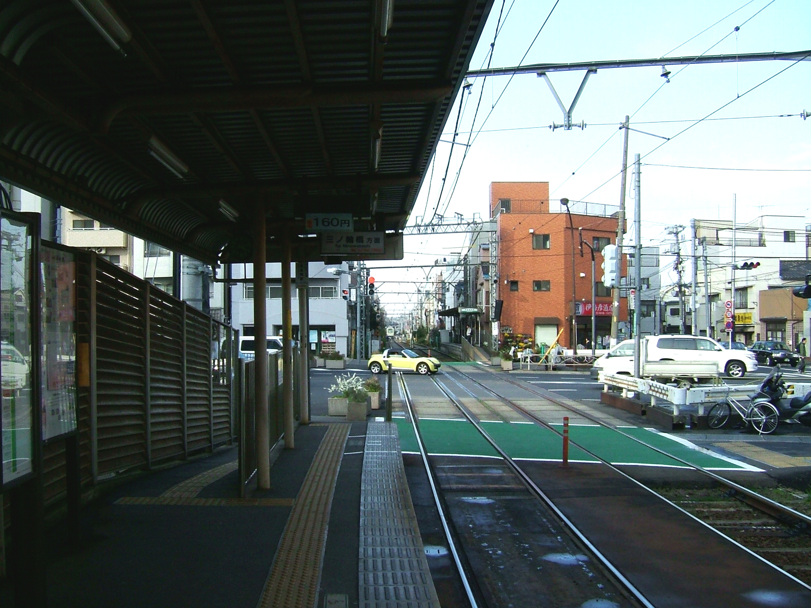 The platforms at Shin-koshinzuka Station on the Toden Arakawa Line in Toshima city, Tokyo, Japan